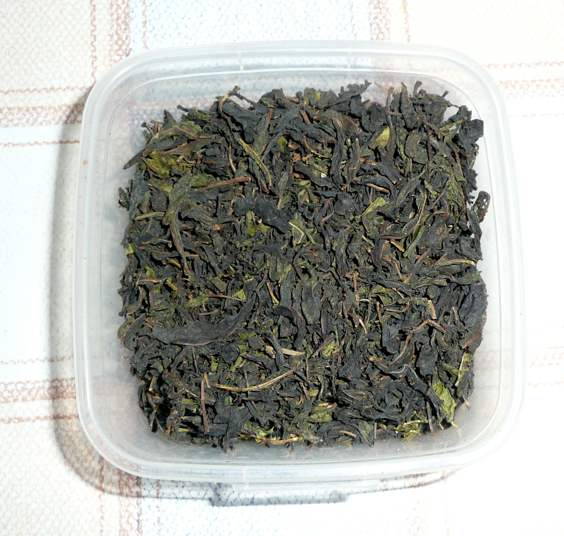 Fermented fireweed leaves